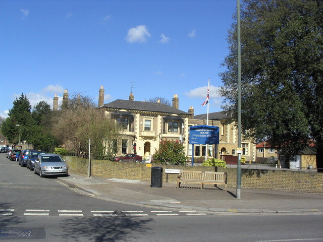 Brinsworth House, Twickenham This is a retirement and nursing home for members of the theatrical profession.